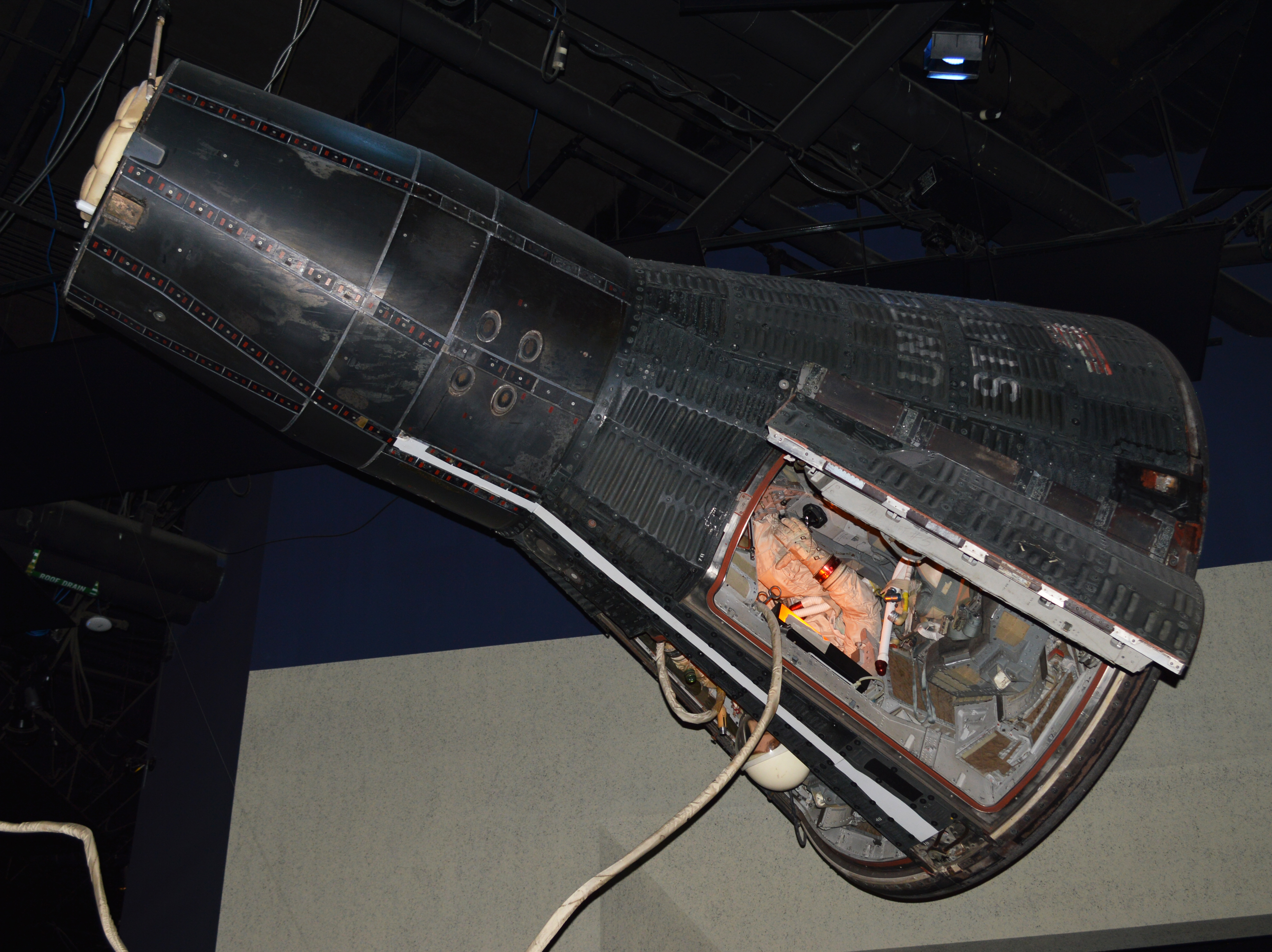 This is the actual Gemini spacecraft in which astronauts Gordon Cooper and Pete Conrad flew on the Gemini 5 mission from 21st to 29th August 1965. This was the third manned flight of the Gemini program. It is on display at Space Center Houston, Lyndon B Johnson Space Centre, Houston, Texas, United States. 20th March 2017